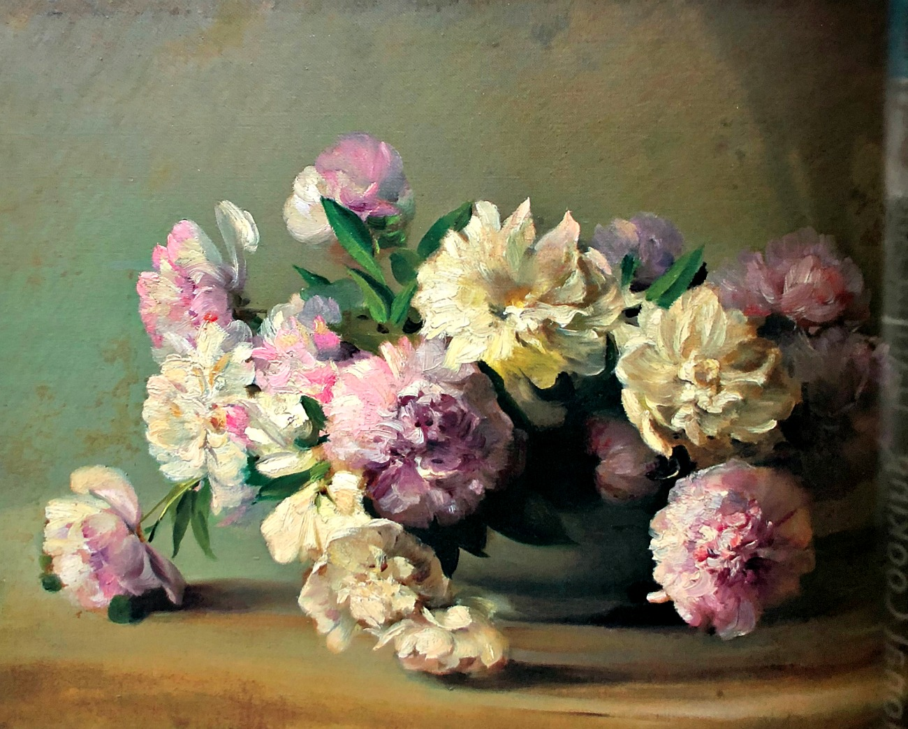 Peonies in a Bowl, Oil on canvas, 1885, private collection